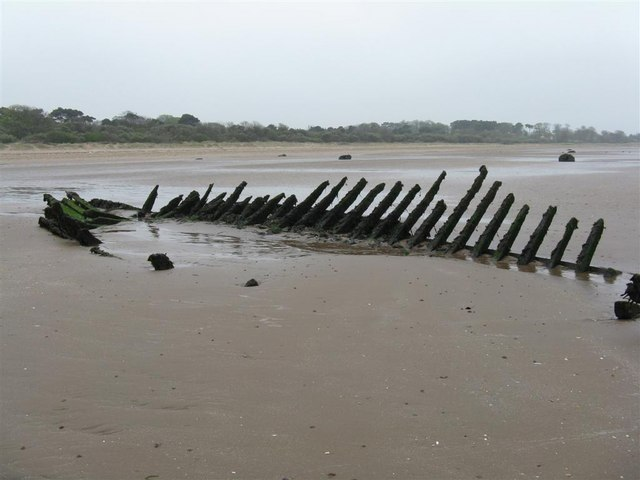 Seton Sands, with boat wreck